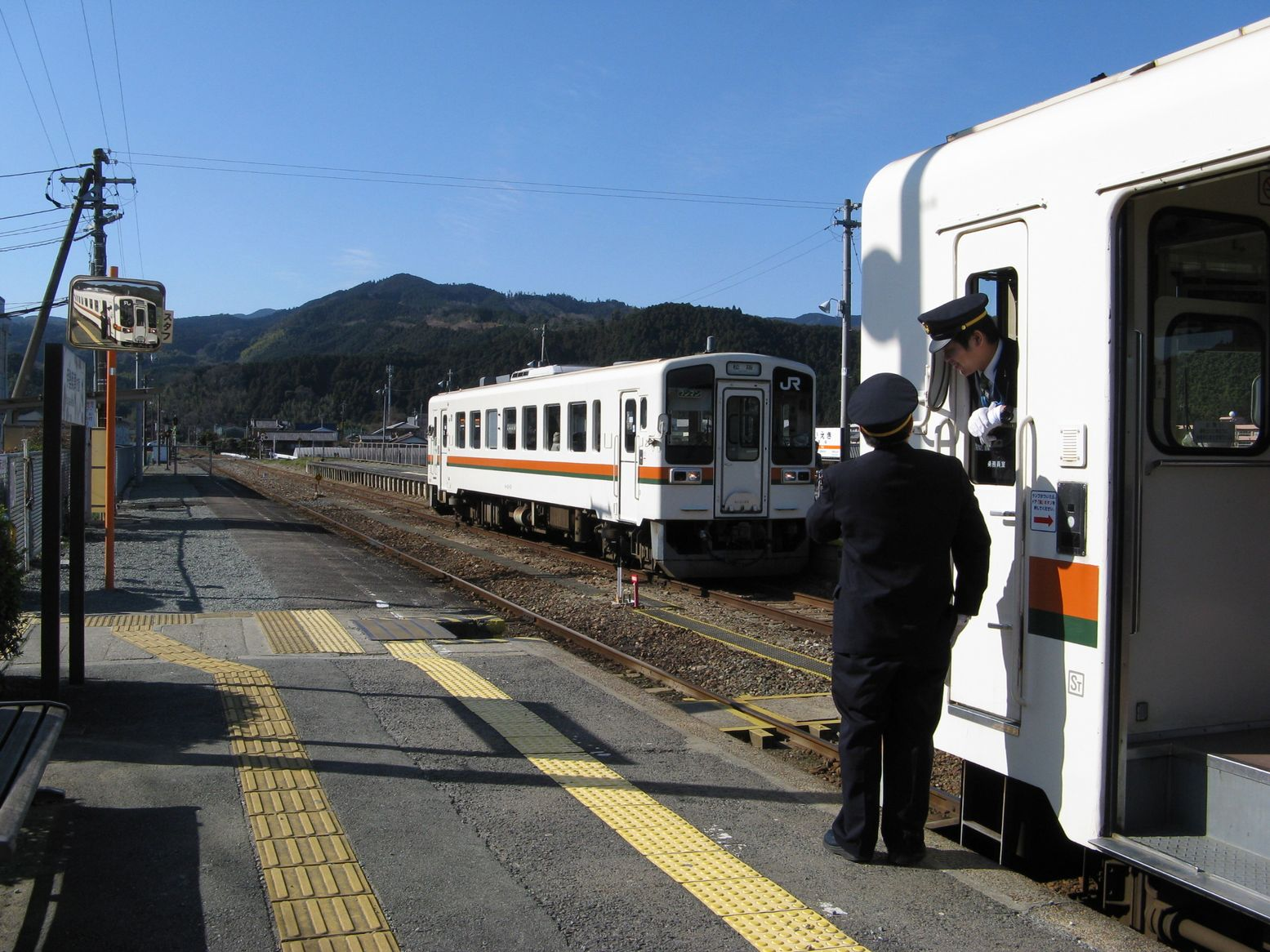 Ieki Station